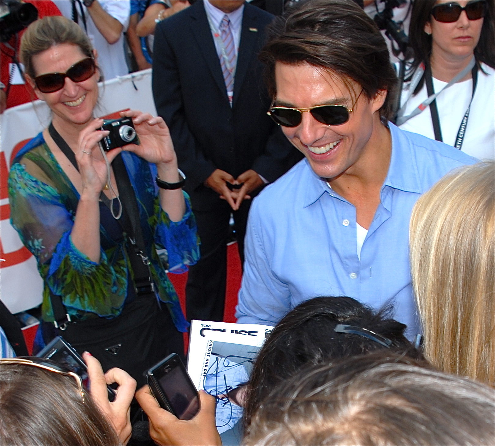 Tom Cruise befor the premiere of Knight & Day in Munich July 21, 2010.